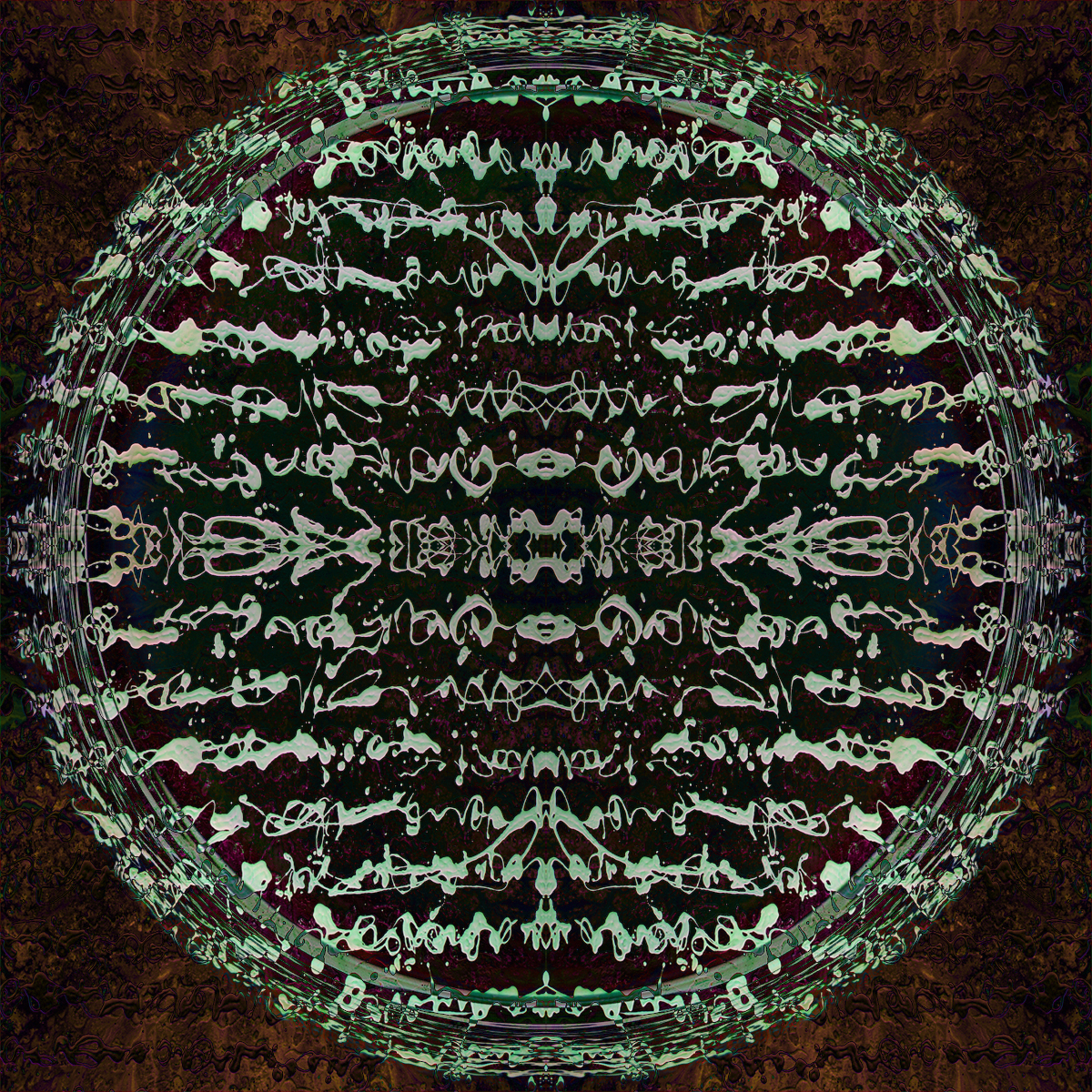 numeric art